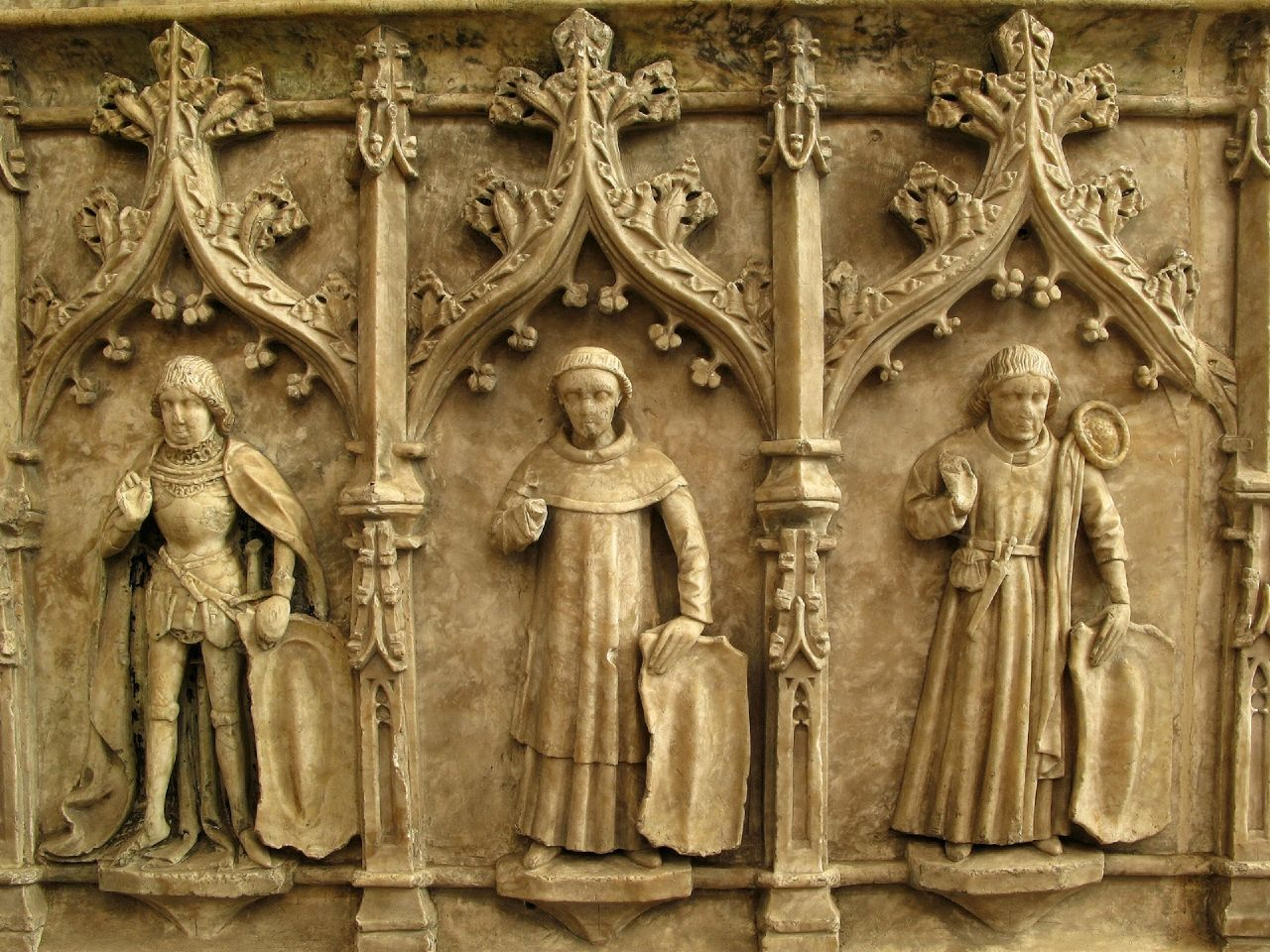 (St Mary and St Barlok)Monument to Sir Ralph Fitzherbert,d.1483,and his wife:detail of tomb-chest. Three children are shown here Richard, Thomas and John - another four are to the right